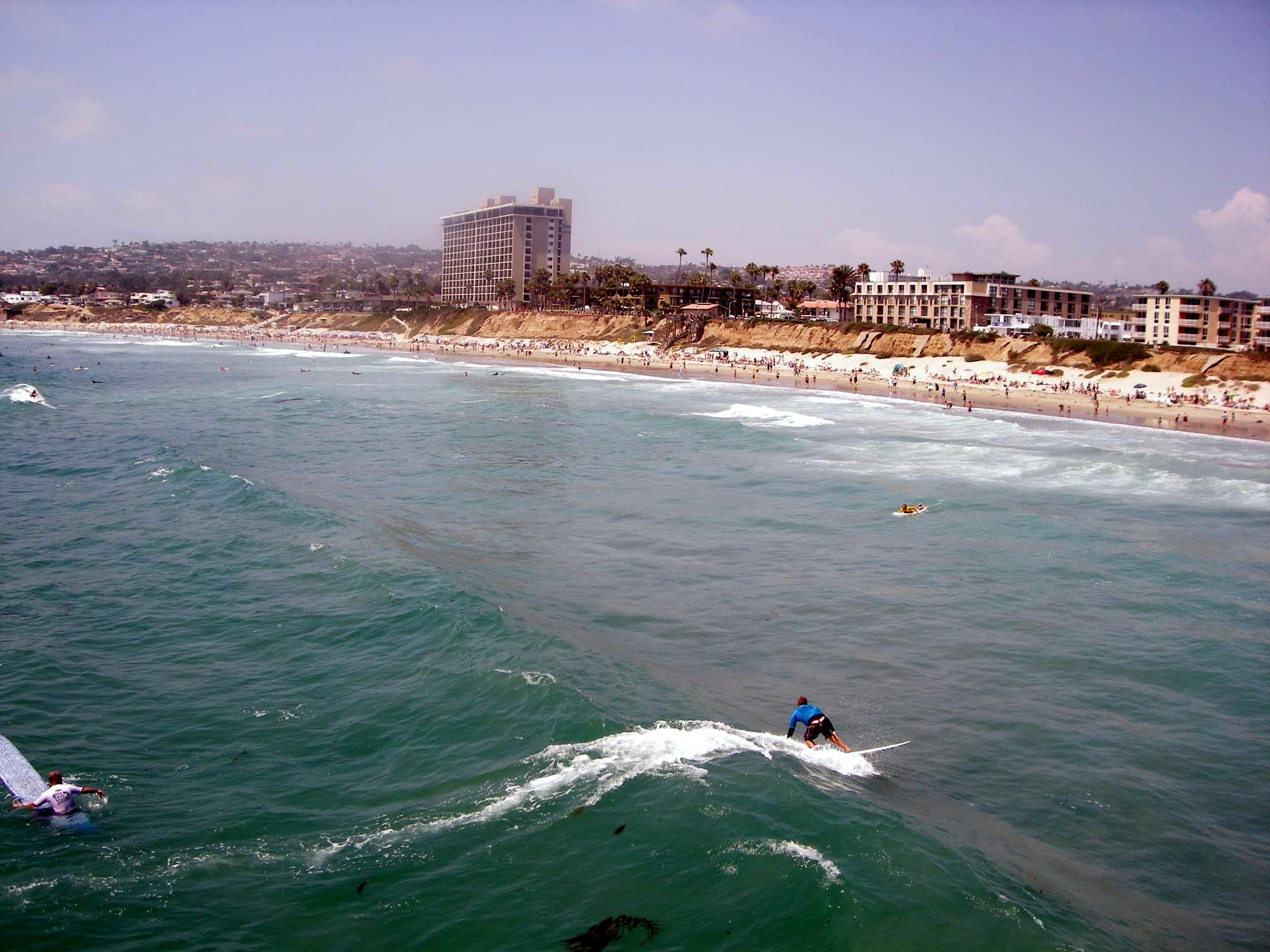 Pacific Beach during a Longboarding contest